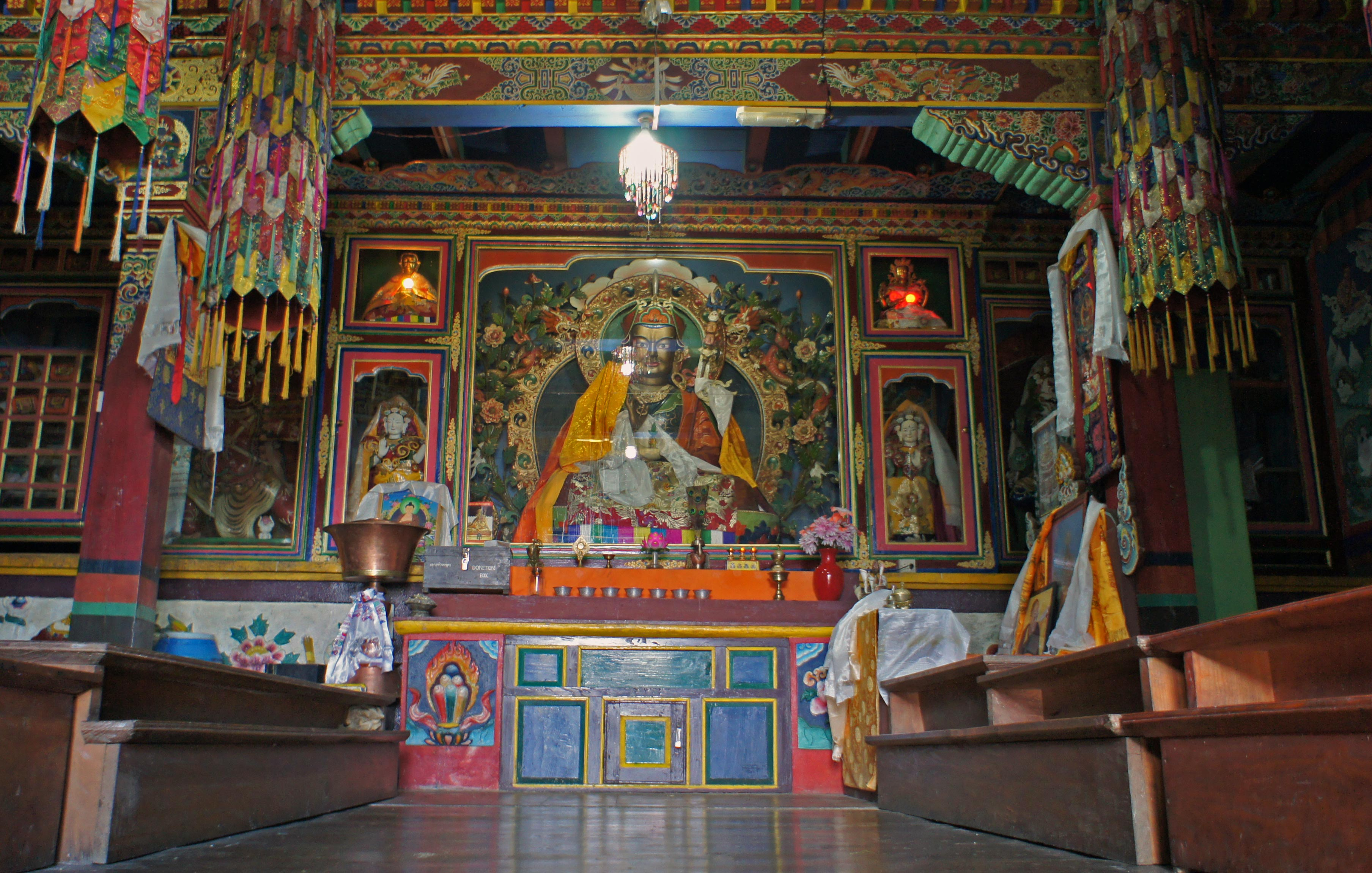 Inside the Cherughyang monastary, Helambu